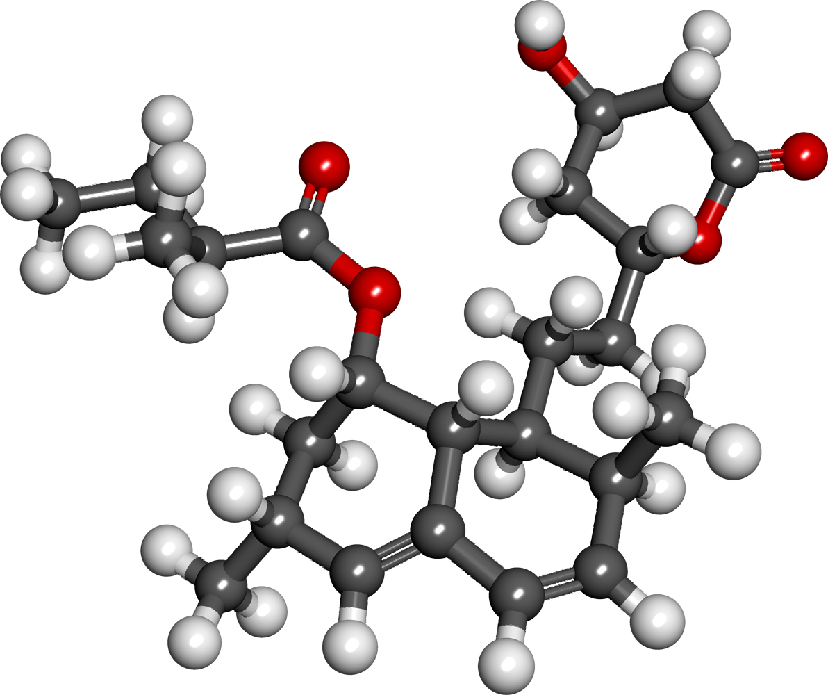 A ball-and-stick model of the hypolipidemic drug Lovastatin.